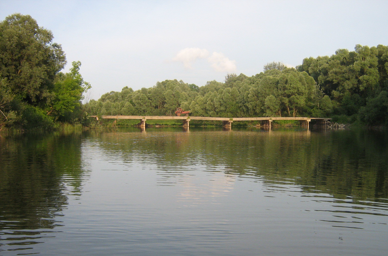 Bridge across the river Seym in the district of fat of Hyzhky